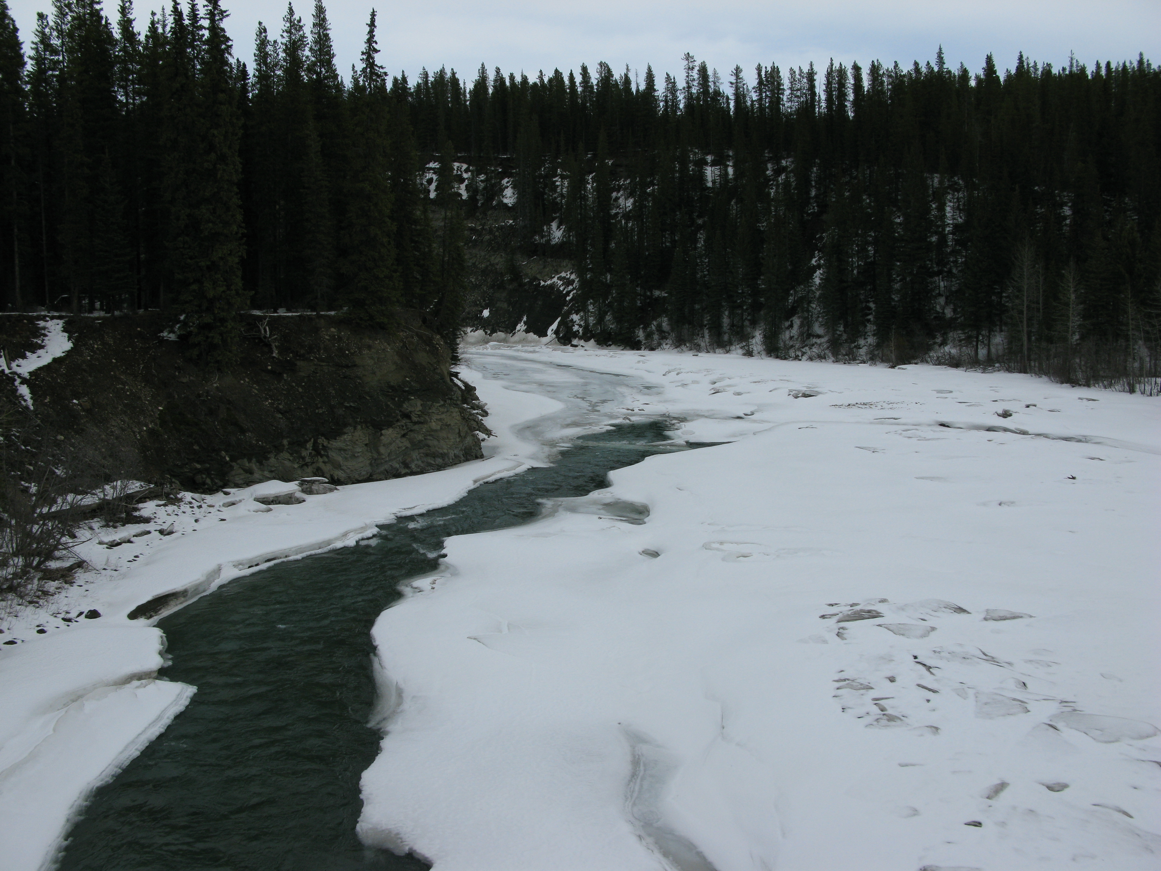 Brazeau River frozen, Alberta, Canada.